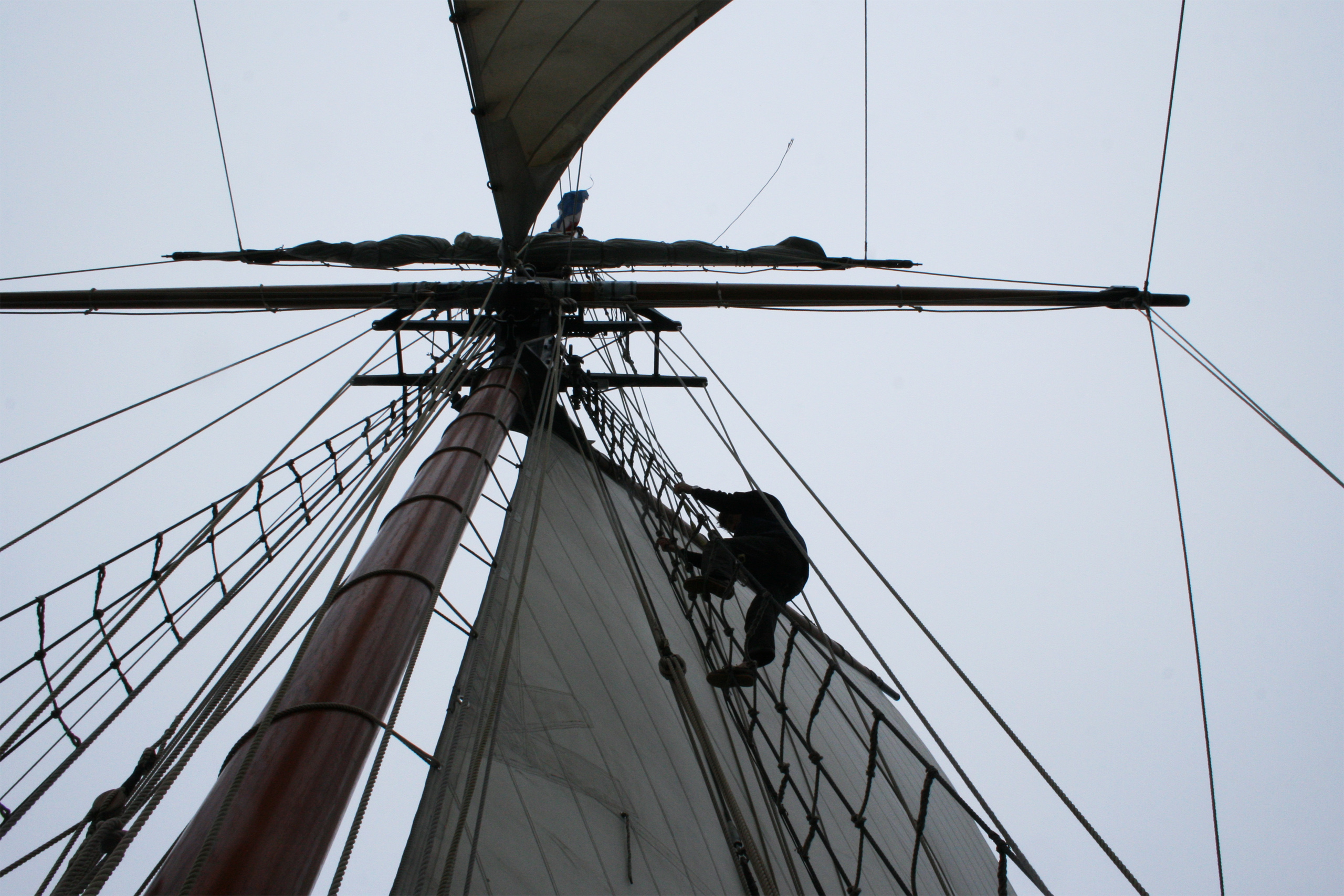 sailor climbing the mast of Renard